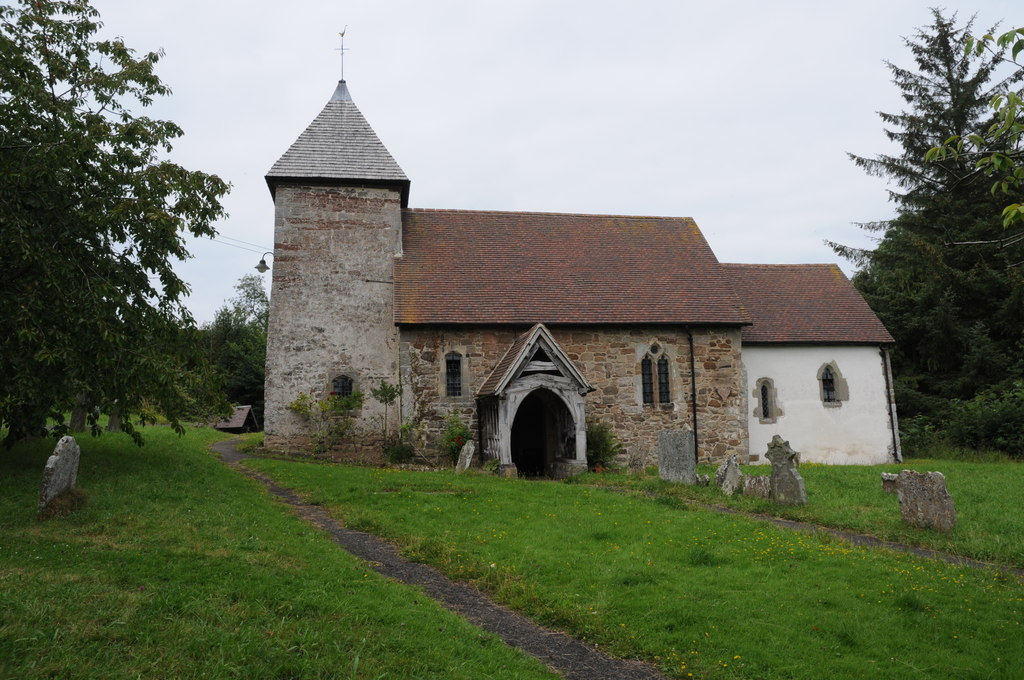 Photograph of St John the Baptist's Church, Hope Bagot, Shropshire